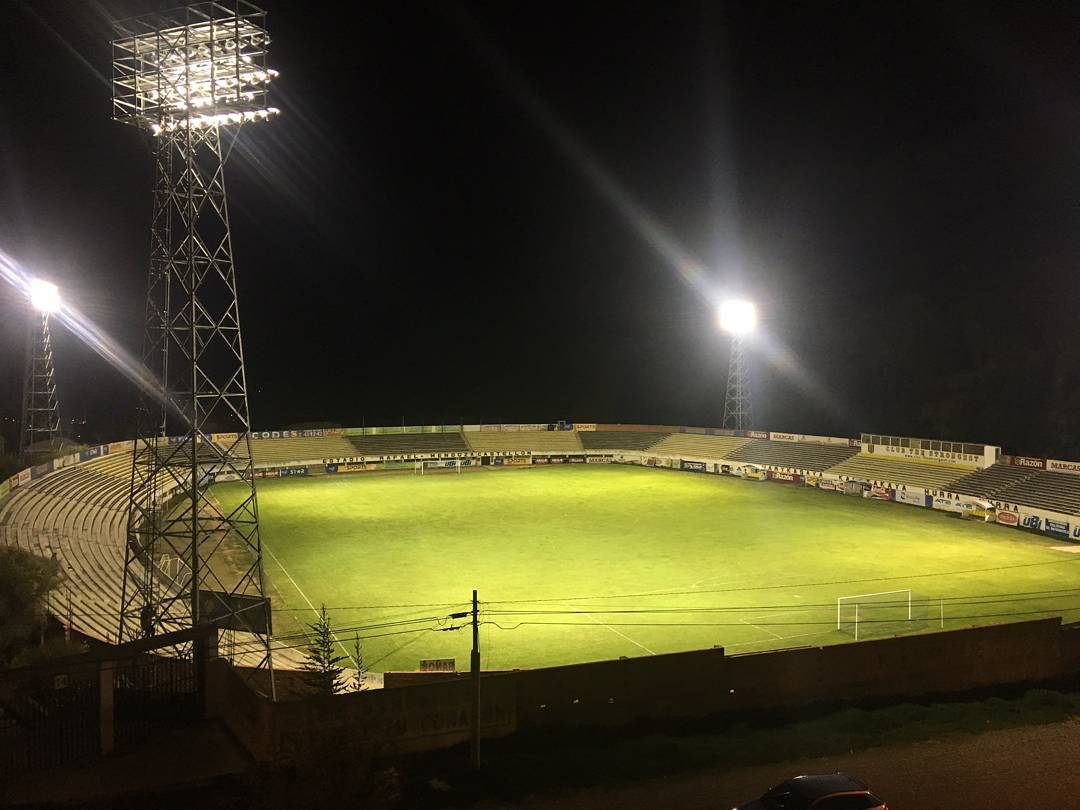 Club The Strongest Stadium (night)